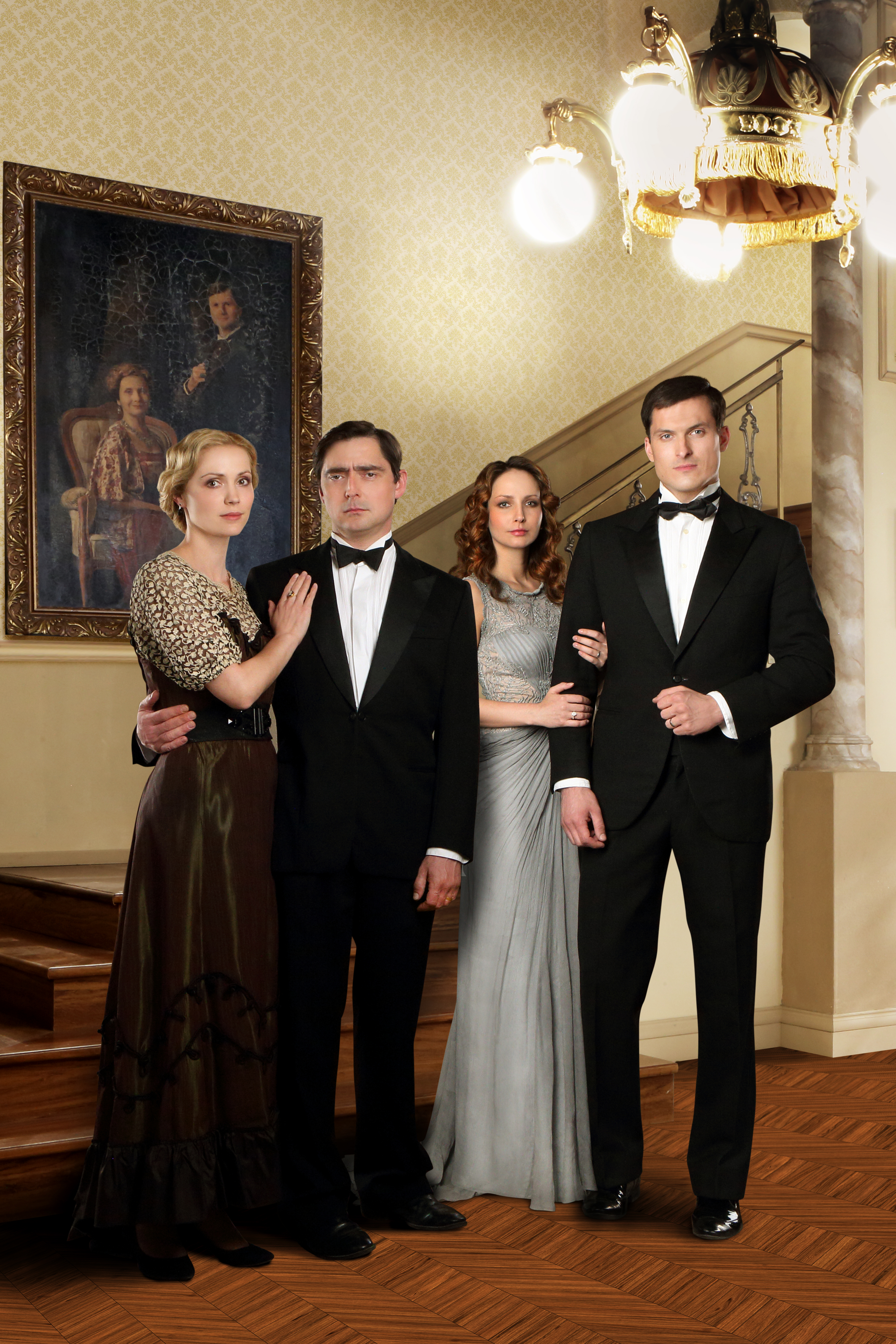 První republika (seriál)